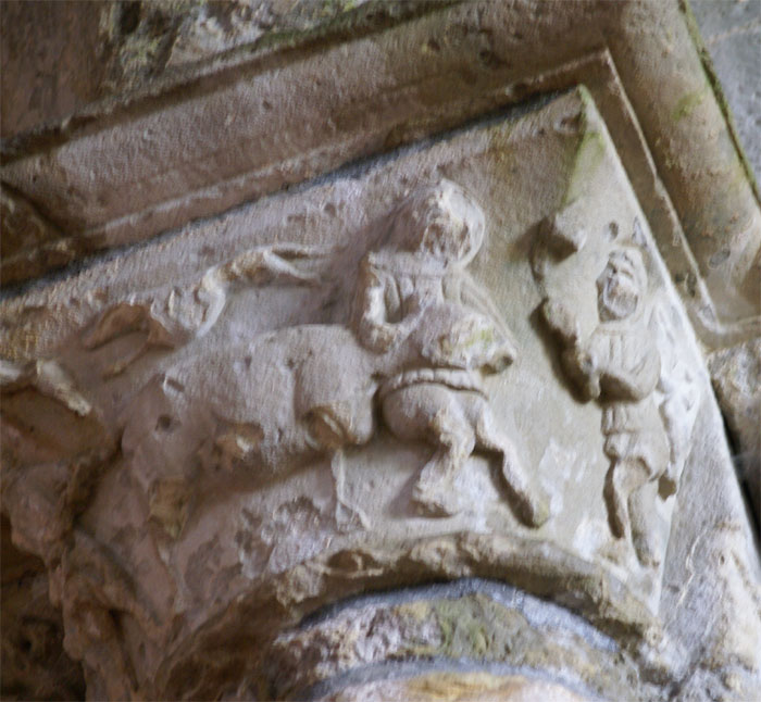 Iona Abbey - Island of Iona, Scotland - carving on a capital in the crossing of the abbey church